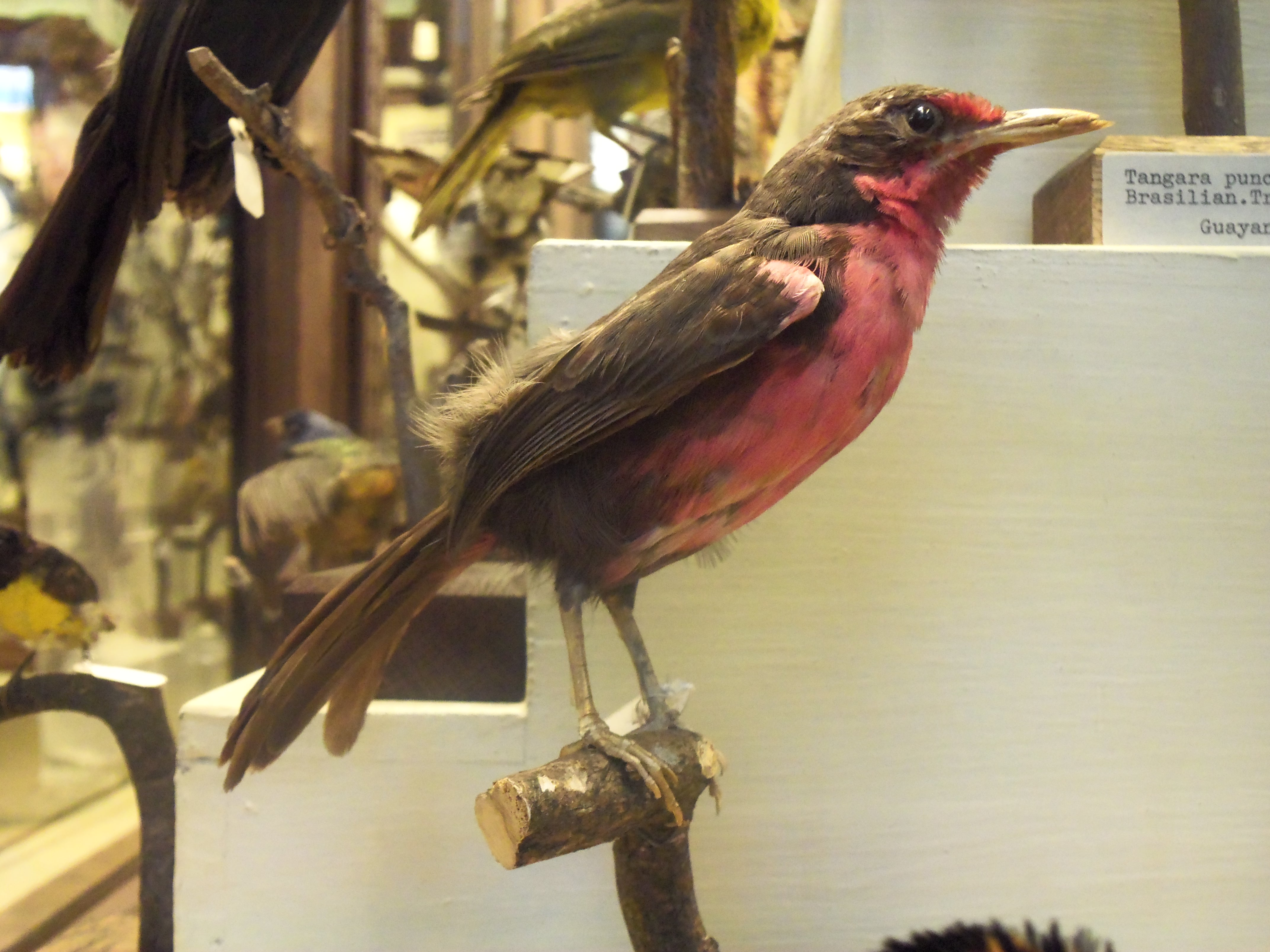 Rosy thrush-tanager (Rhodinocichla rosea). Museum of Natural History in Vienna